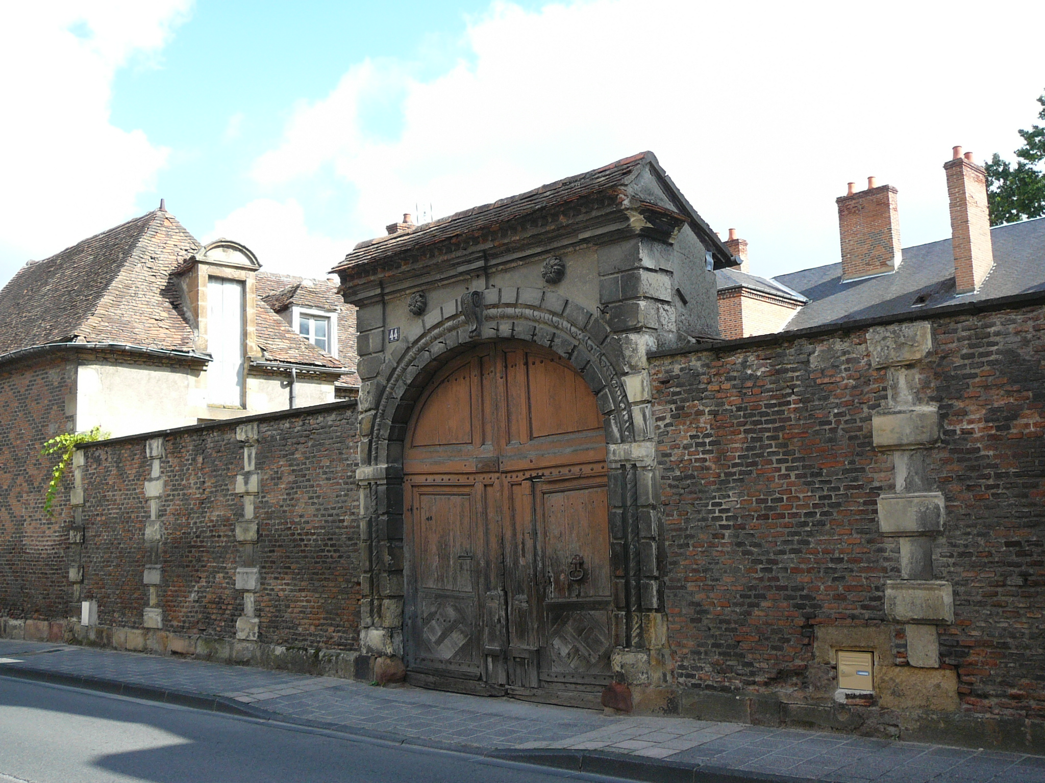 Hôtel Héron Moulins